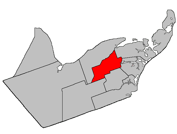 Location of New Bandon Parish within Gloucester County, New Brunswick, Canada.